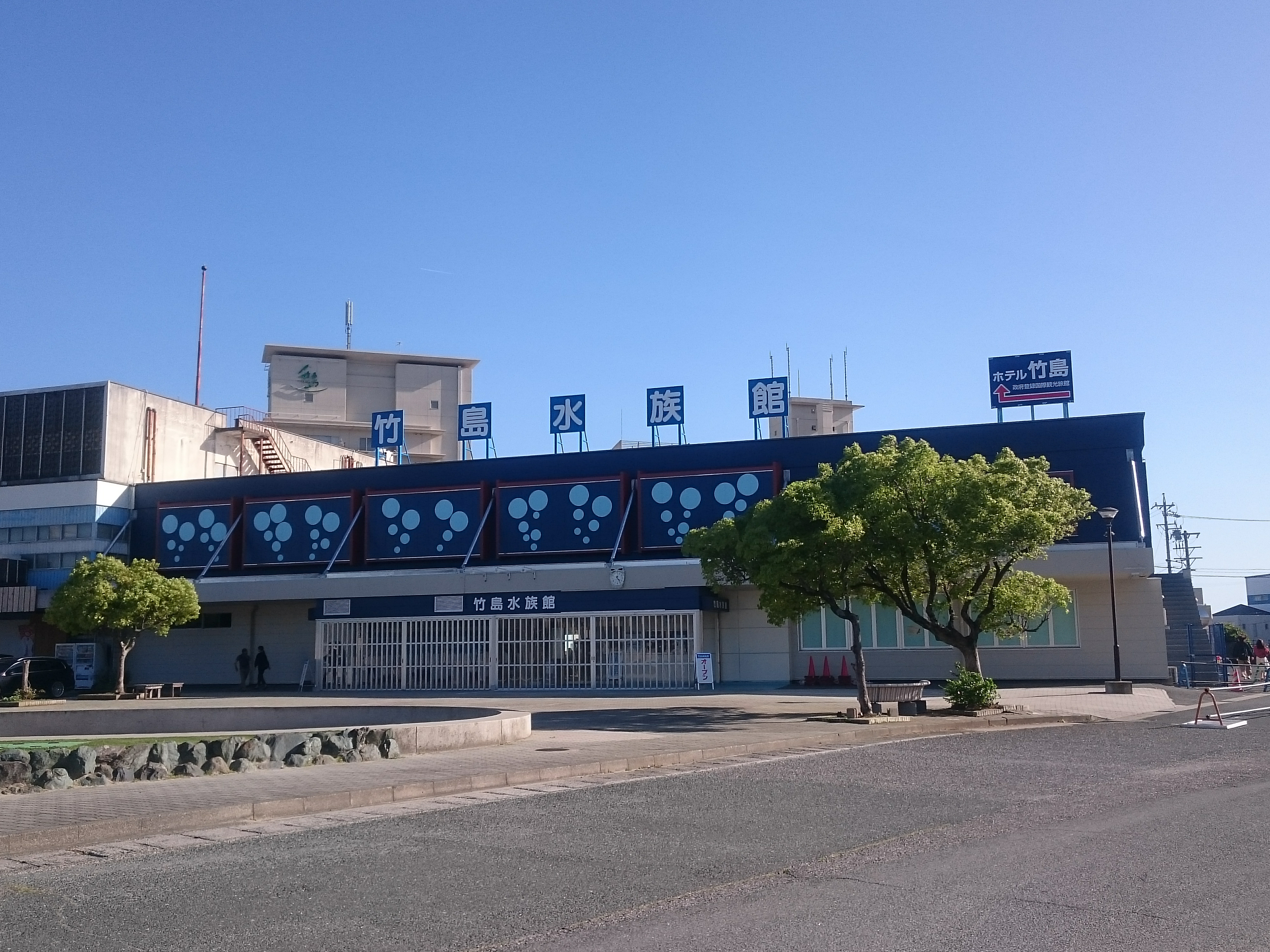 Takeshima Aquarium (竹島水族館), located at 1-6 Takeshima-cho, Gamagori, Aichi, Japan